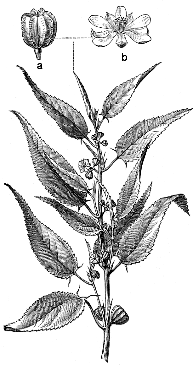 Corchorus capsularis a frukt, b blomma.